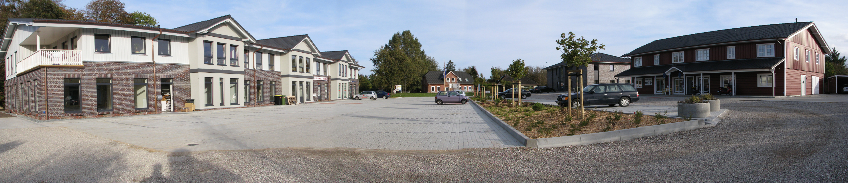 Some new buildings of firms in the services sector in Langenhorn.